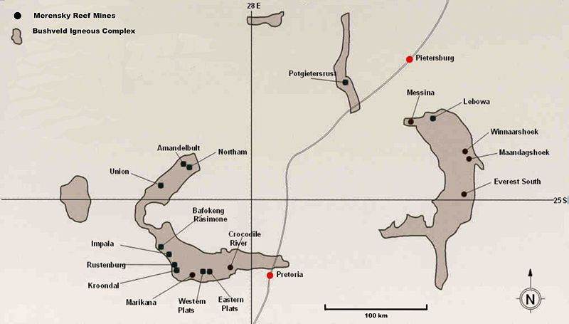 Mines of the Merensky Reef